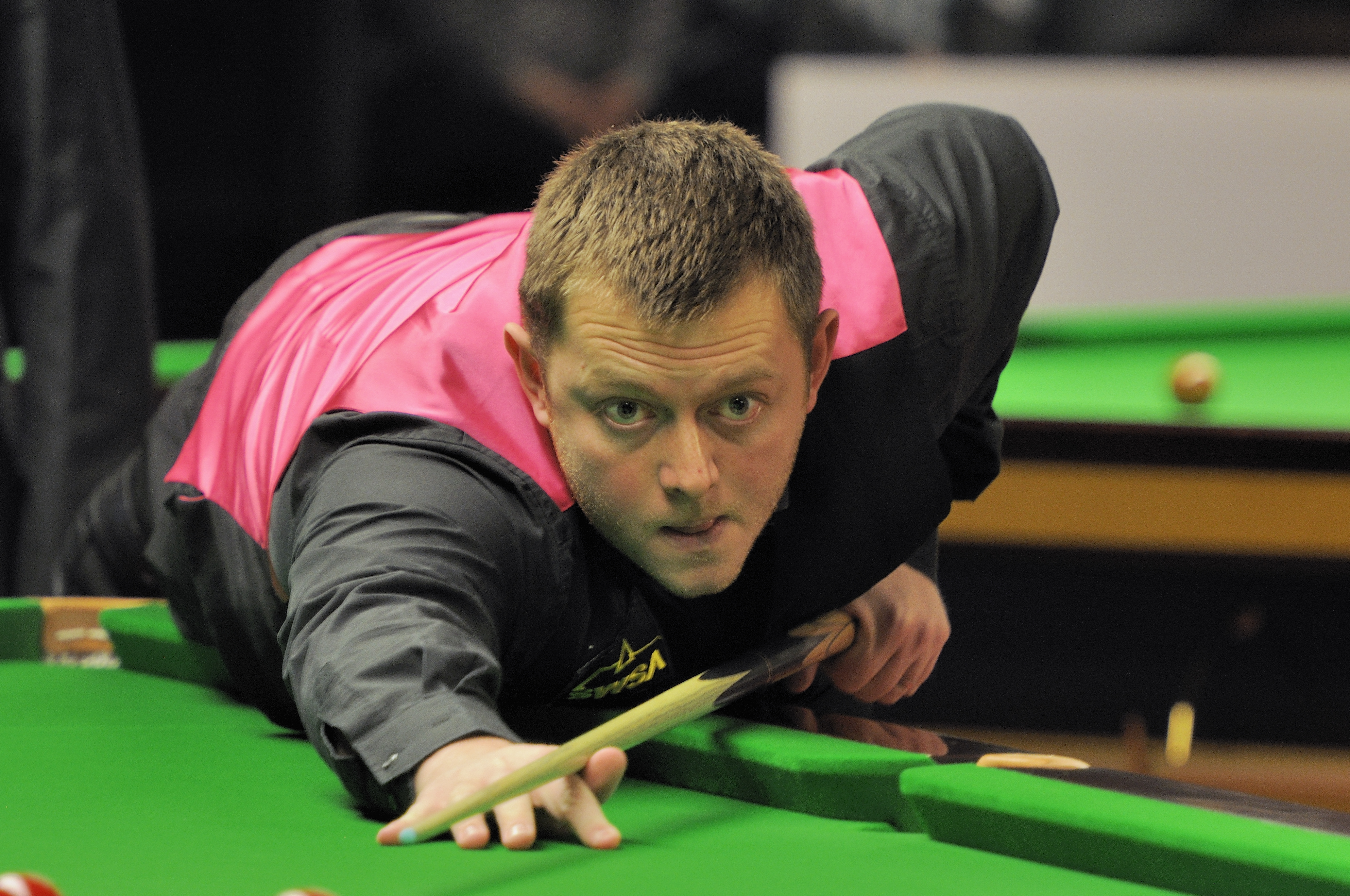 Picture taken in Berlin during the Snooker German Masters in 2014. Mark Allen.